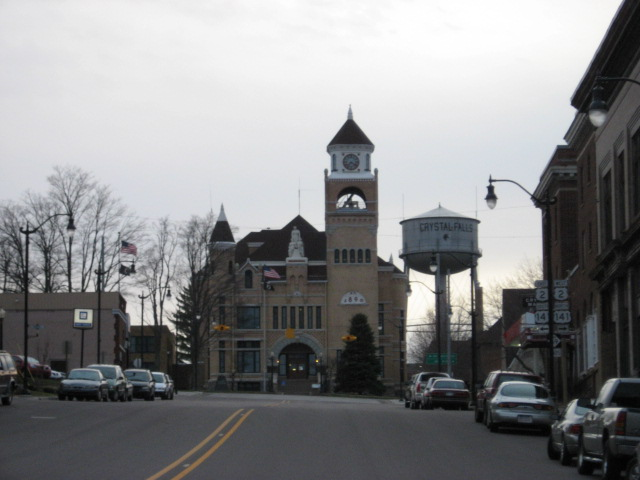 The Iron County Courthouse in Crystal Falls, Michigan and the end of the road for M-69. The watertower in the background has a logo of a Trojan, the local high school's mascot.